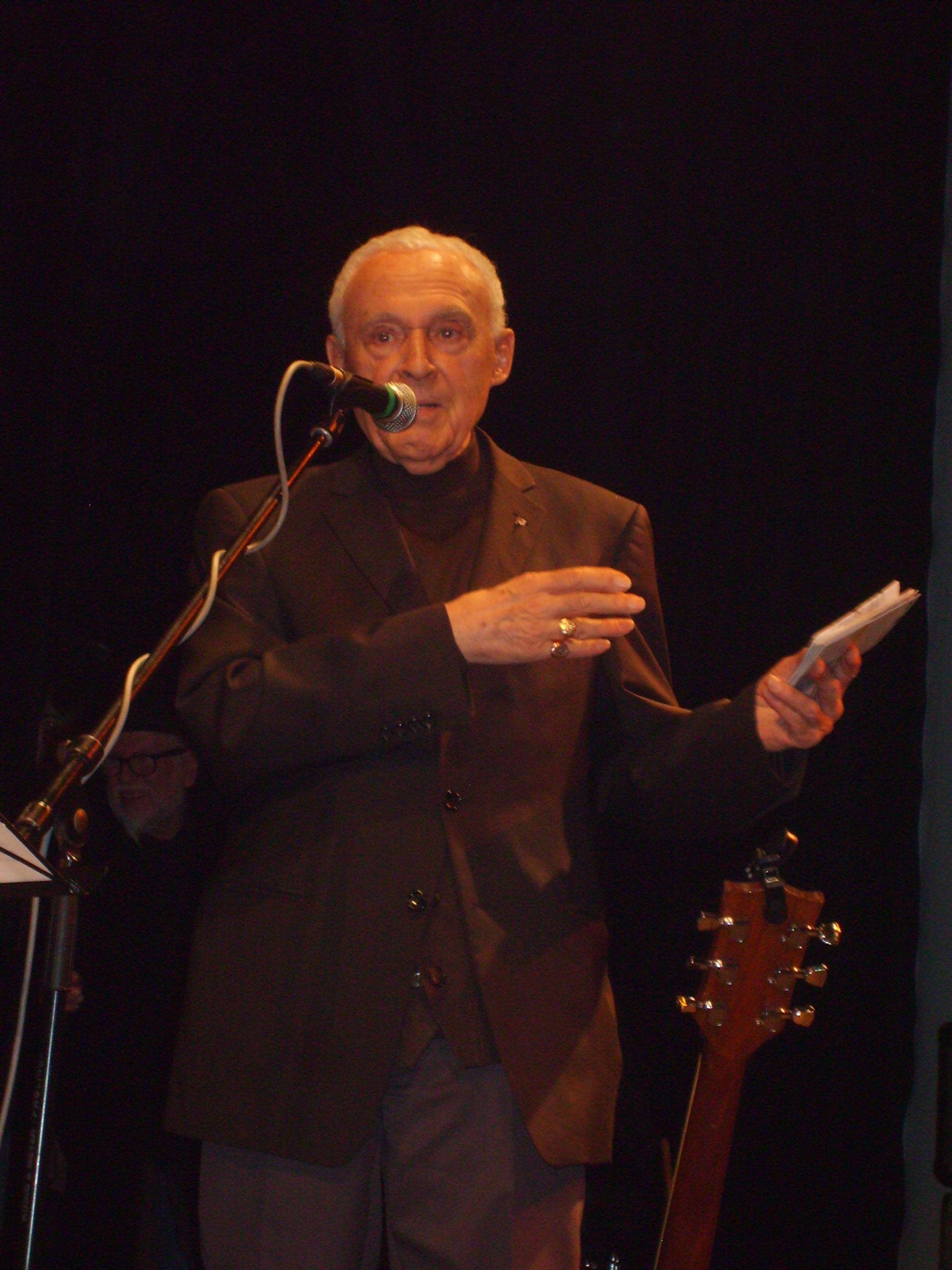 Professor Jiří Jirmal, classic guitarist